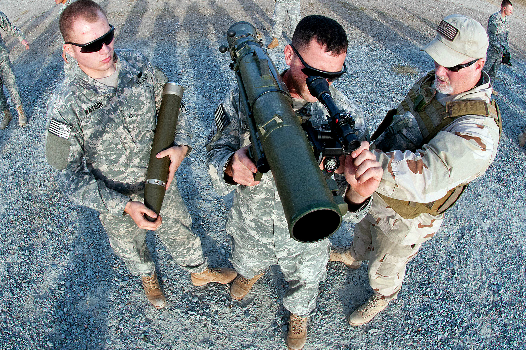 A civilian instructor coaches two paratroopers on how to use a Carl Gustav M3 84mm recoilless rifle during a certification course on Fort Bragg, N.C., Dec. 6, 2011. The paratroopers are assigned to the 82nd Airborne Division's 1st Brigade Combat Team. The multi-role weapon consists of a light artillery tube that can be used against armor, fortifications and personnel. U.S. Army photo by Sgt. Michael J. MacLeod